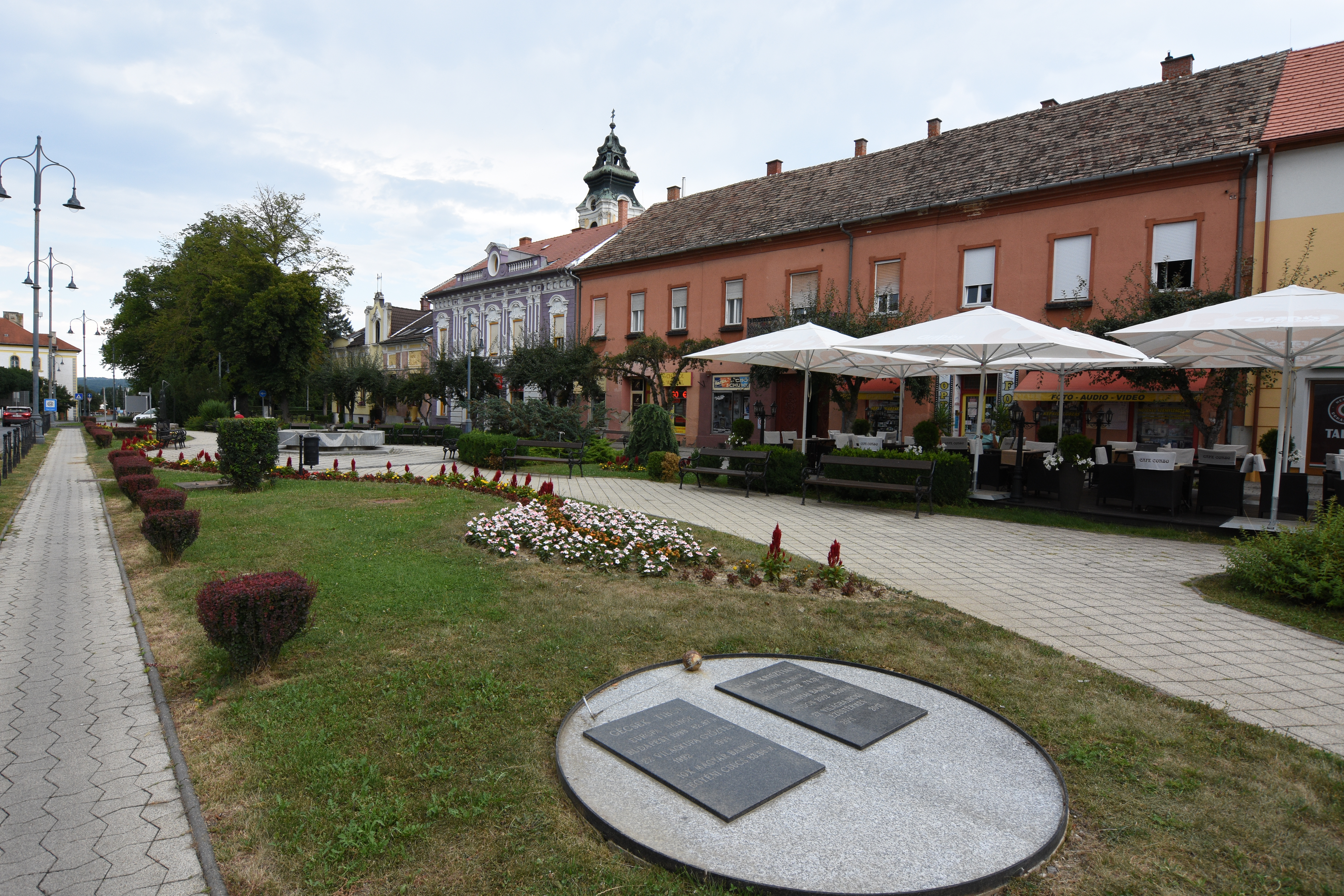 Tibor Gécsek Memorial